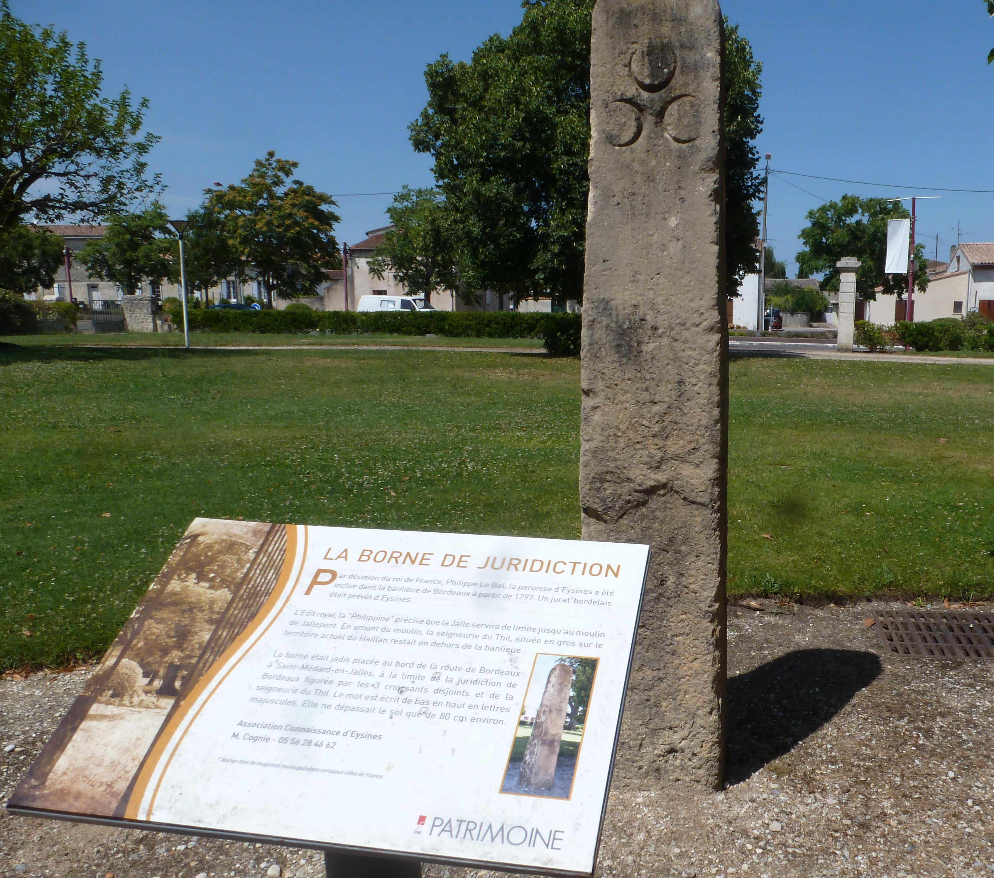 Eysines, Boundary stone (Thil), now in the park of Château Lescombes-33.